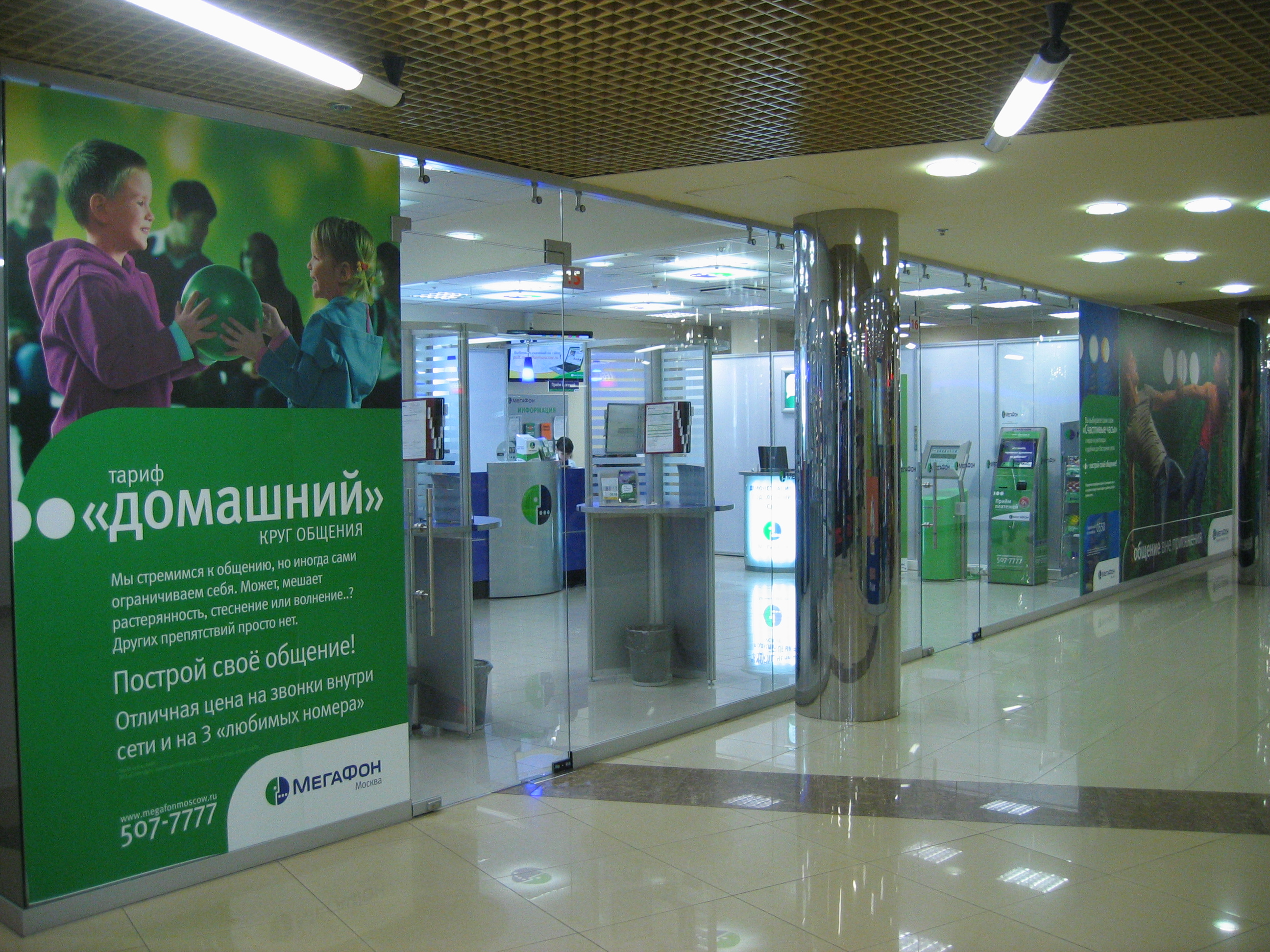 A MegaFon shop in Moscow